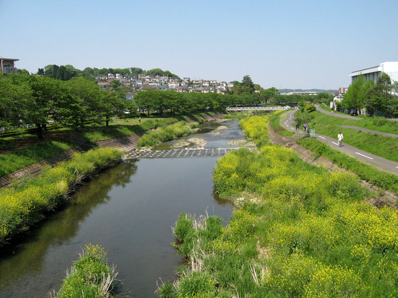 Minami-Asakawa (view from upstream to downstream)